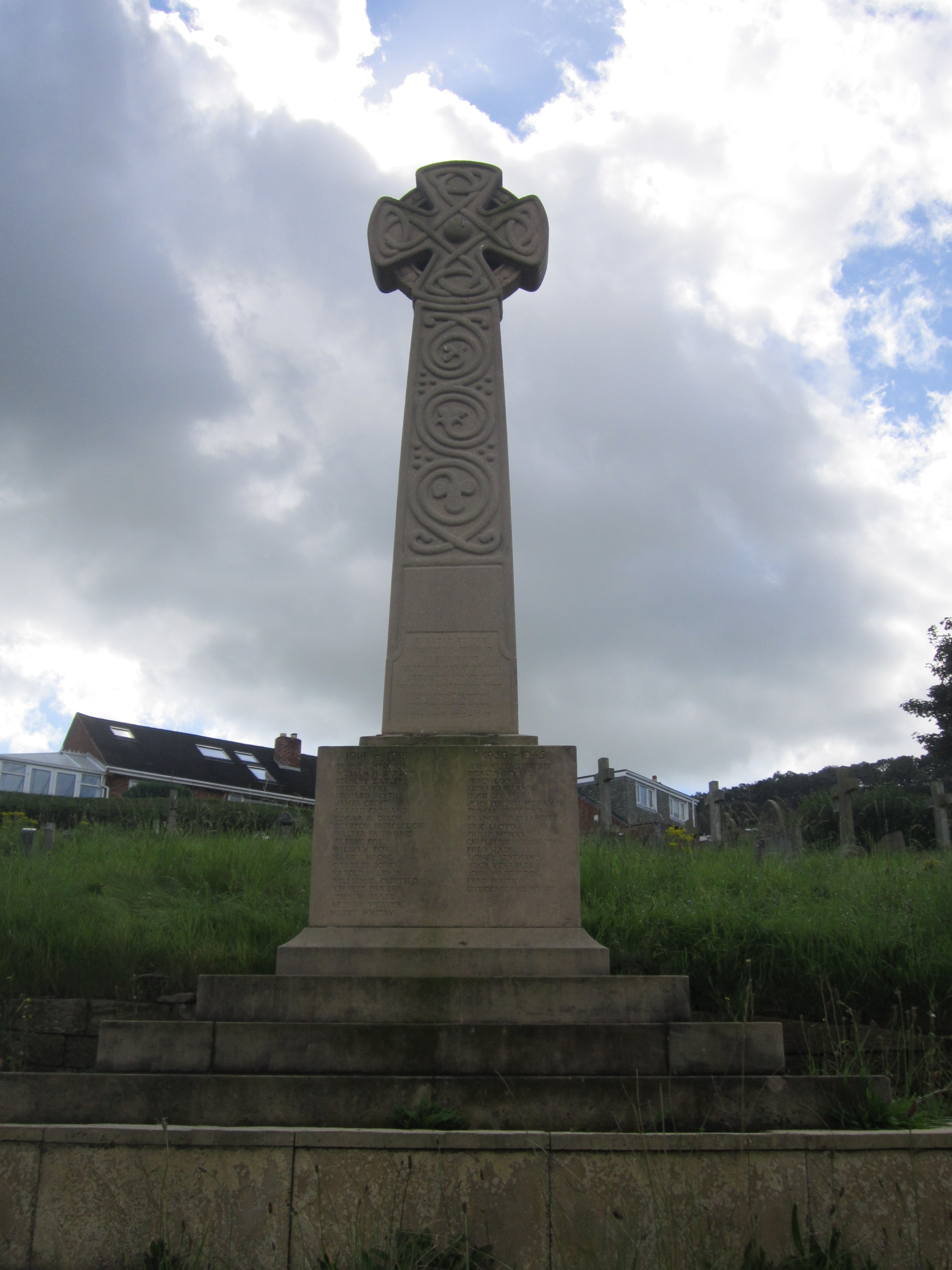 Photo taken at St Paul's Church, Helsby, Cheshire, England.